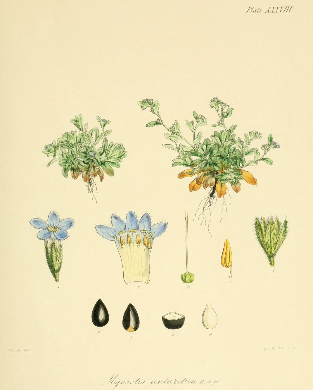 jpg of Plate XXXVIII of Hooker's Flora Antarctica. Myosotis antarctica Forst.